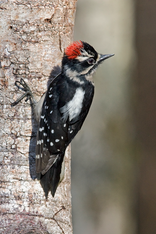 Downy woodpecker, male